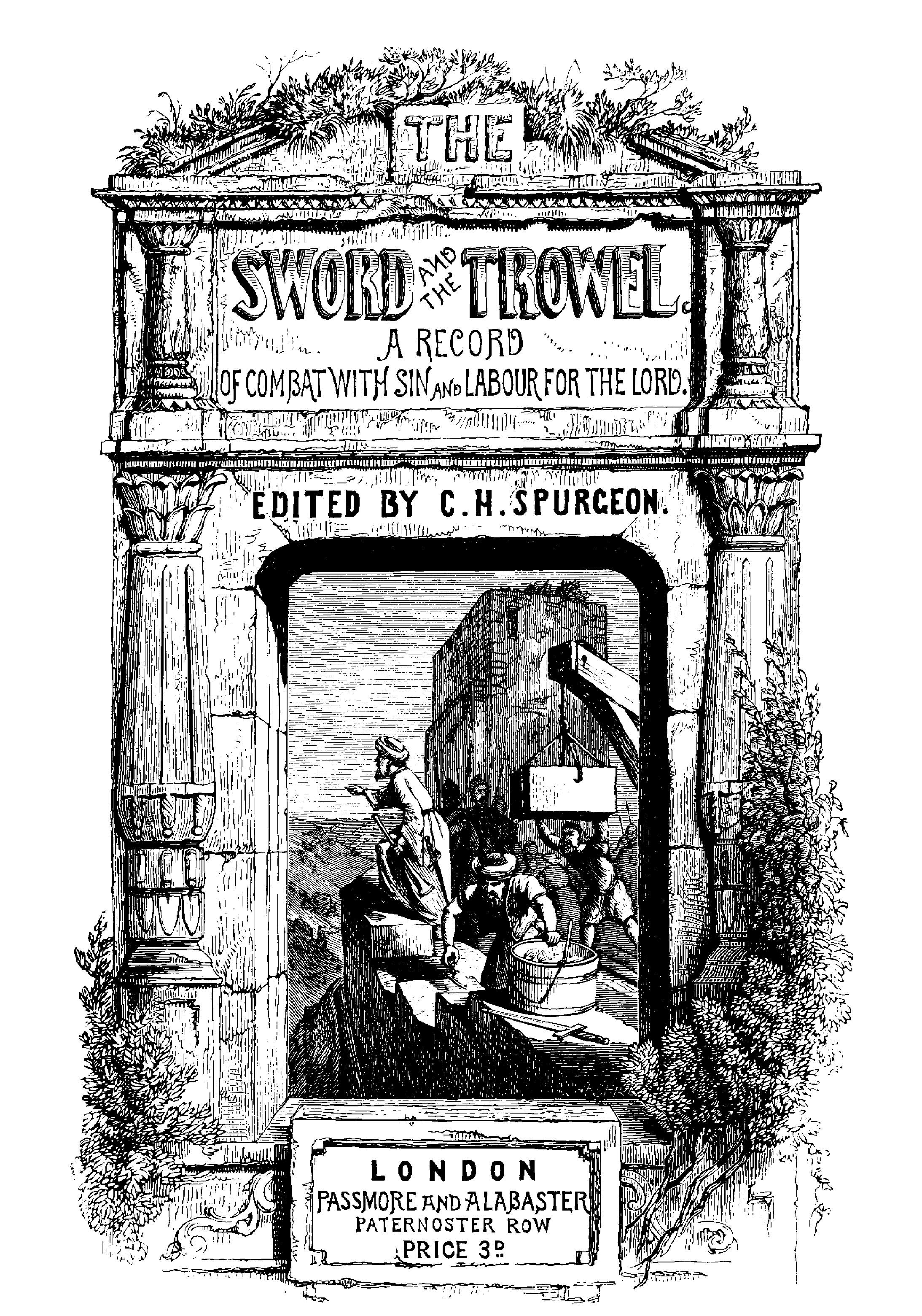 Cover page of early Sword and Trowel Magazine, published by the Metropolitan Tabernacle